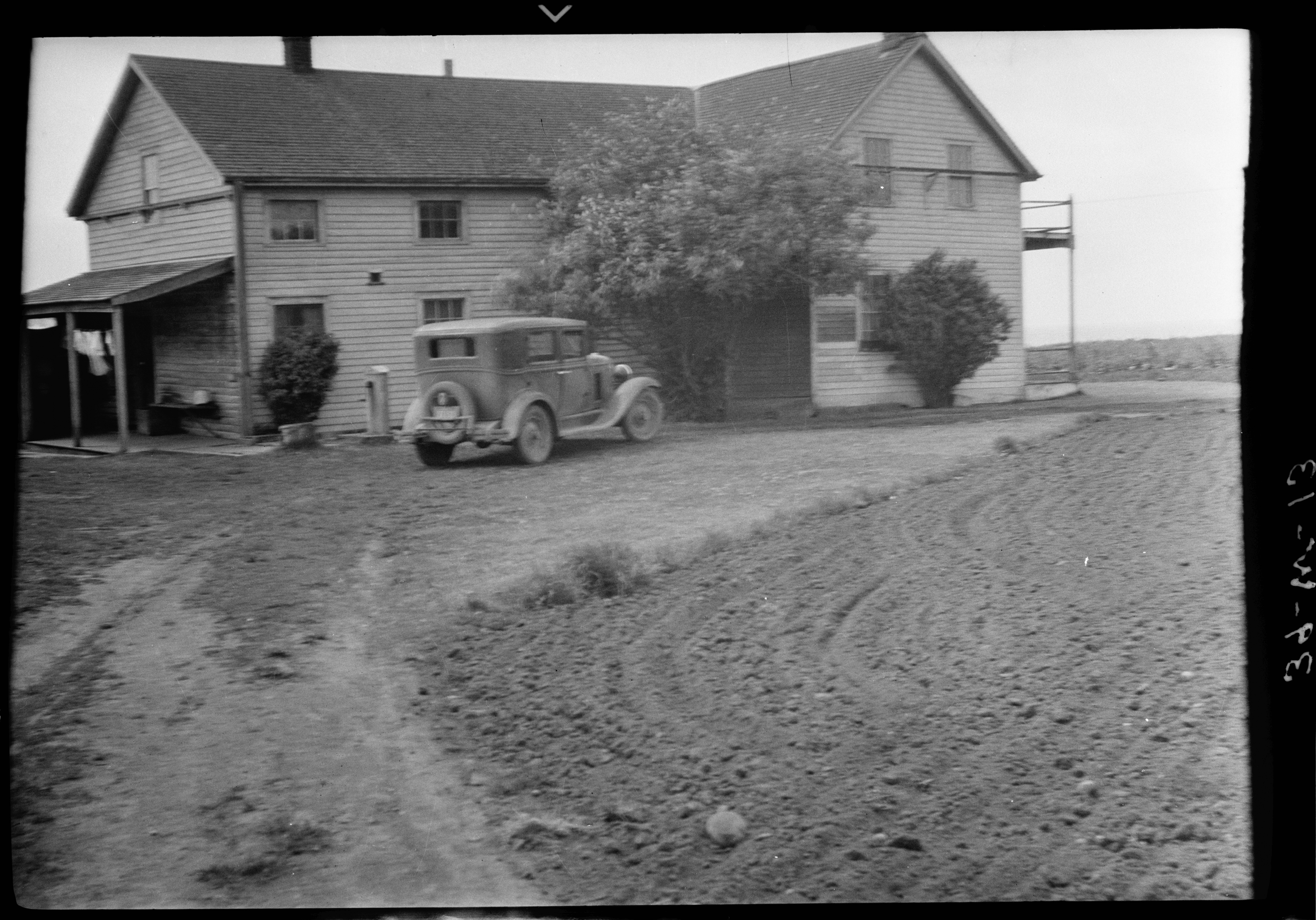 The Ferry House (called The Ebey House by HABS in 1934). Ebey's Landing, Whidbey Island, Coupeville vicinity, Island County, Washington, United States